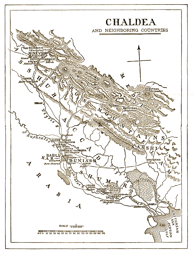 Map entitled Chaldea and Neighboring Countries